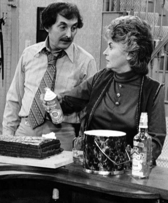 Publicity photo of Bill Macy and Bea Arthur from the television program Maude.